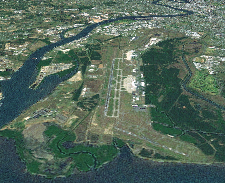 Satellite image of Brisbane Airport in Brisbane, Queensland, Australia